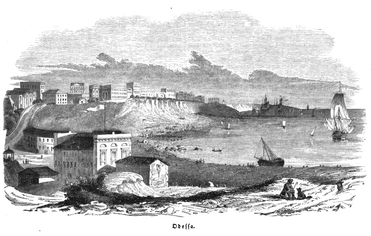 caption: "Odessa."